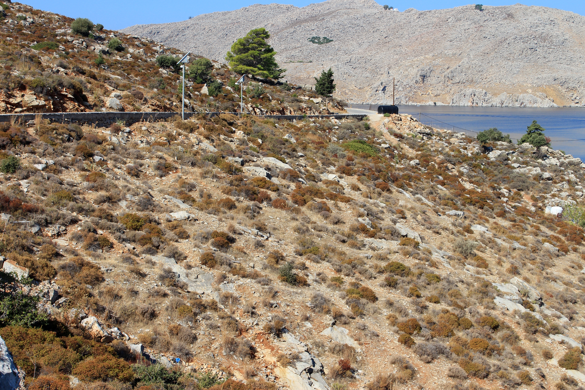 Typical phrygana on Symi. Note the domed habitus of each plant and the distance of open, uncovered earth between them.